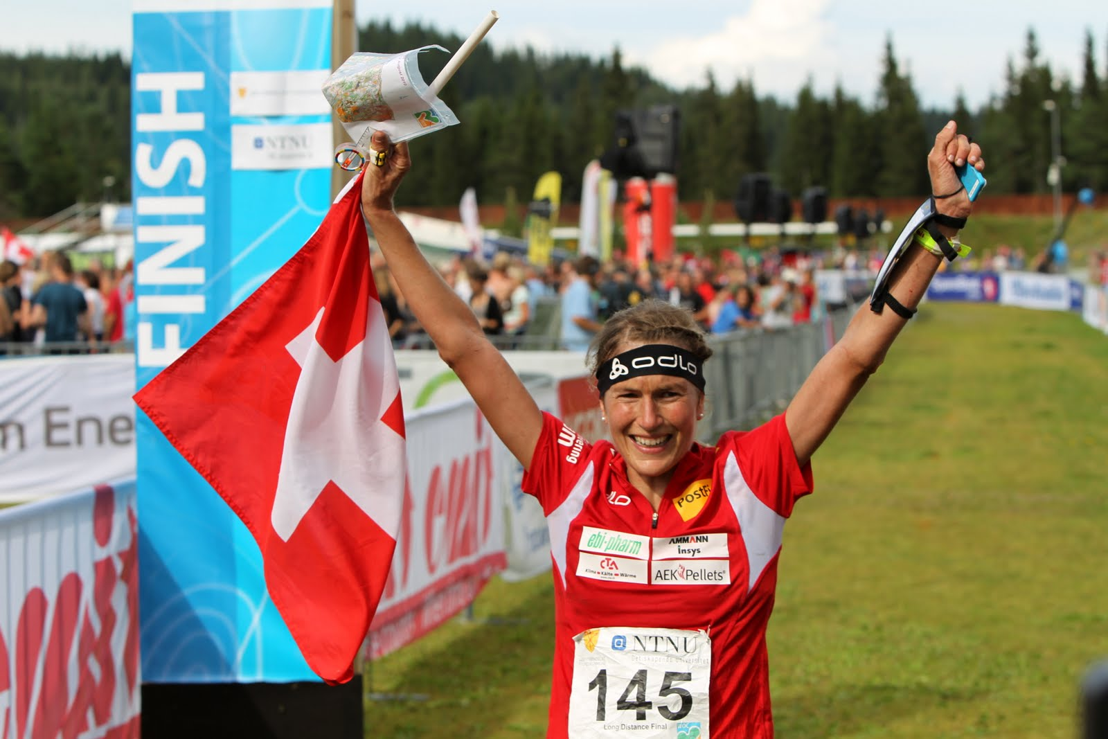 Simone Niggli-Luder at World Orienteering Championships 2010 in Trondheim, Norway